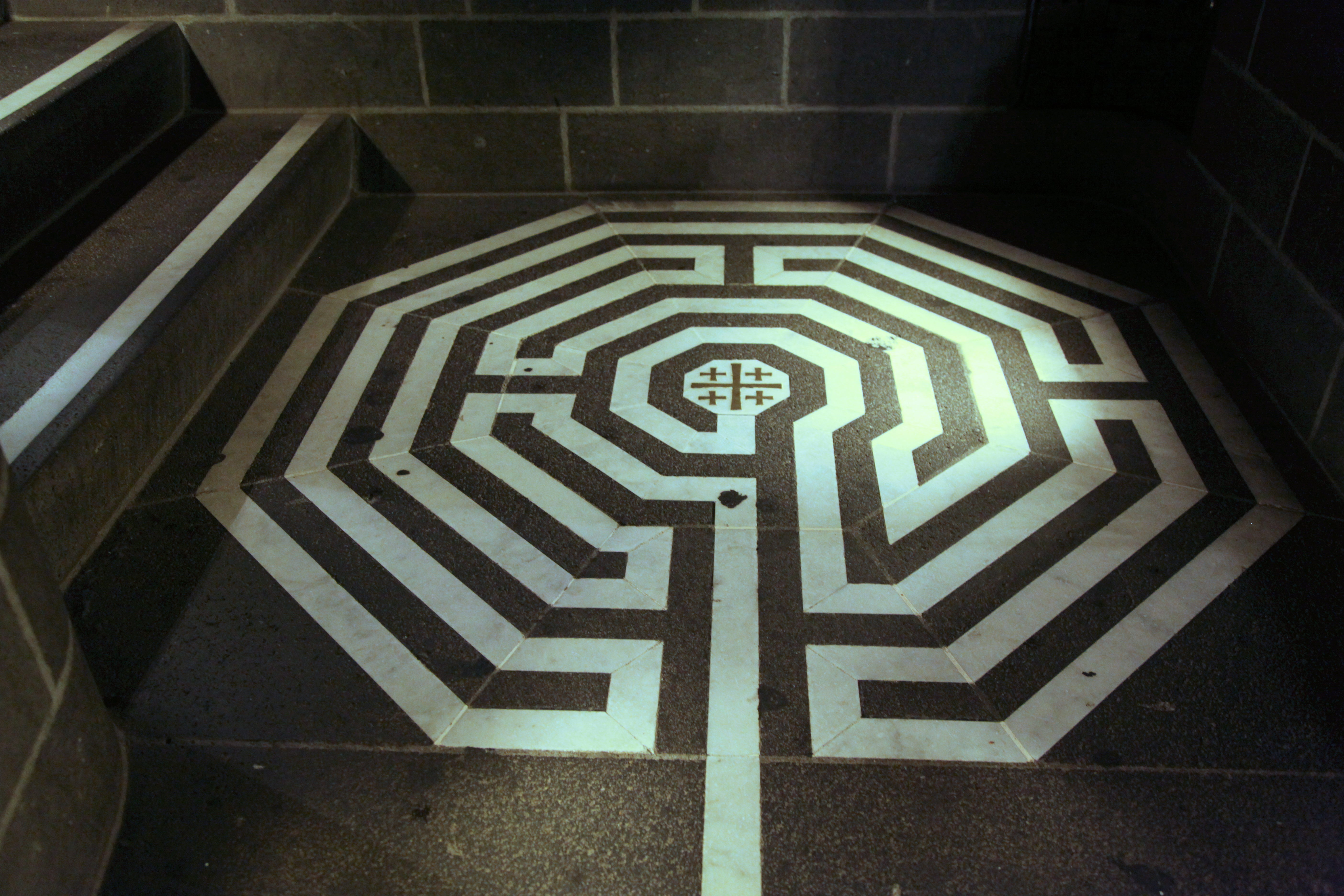 Inside the Cologne Cathedral